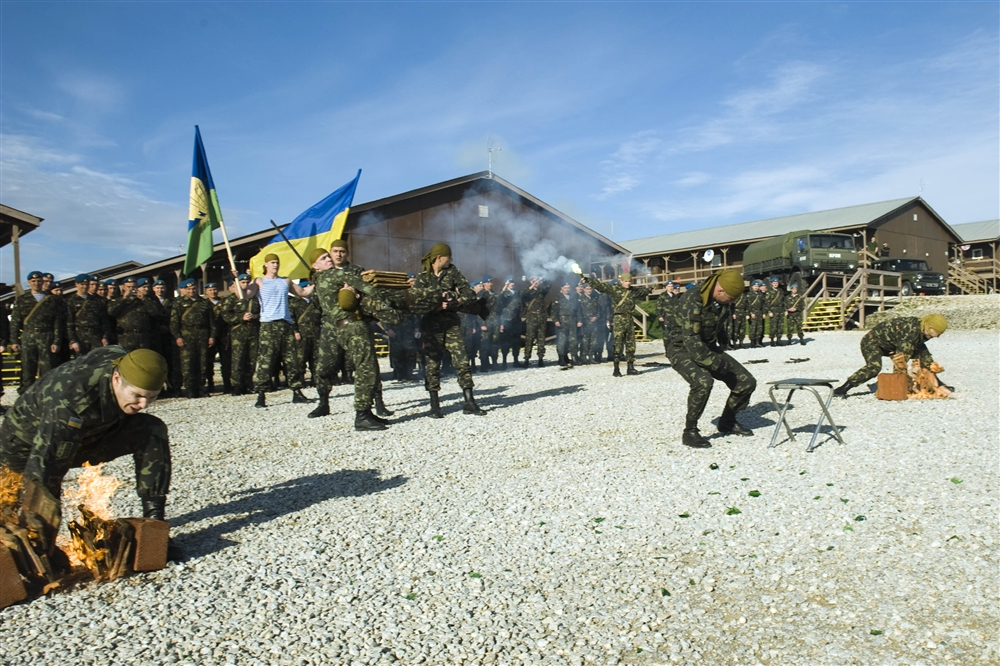 Ukraine soldiers from the 79th Airmobile Brigade go all out to conclude a martial arts demonstration on Dec. 6, Ukraine Armed Forces Day, on Camp Bondsteel, Kosovo. The 79th Airmobile Brigade is an elite paratrooper unit with specialized training in hand-to-hand combat.